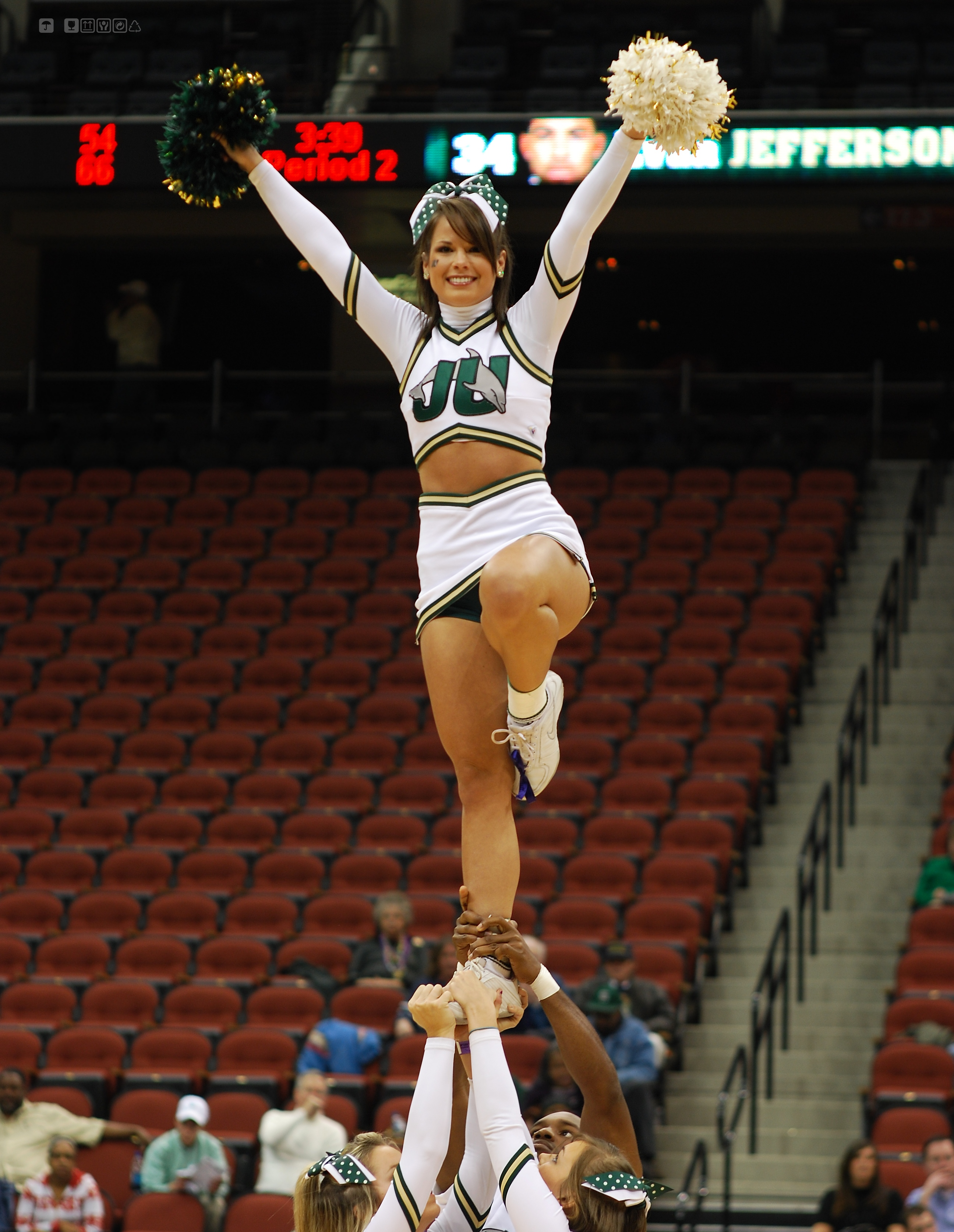 JU Cheerleaders. Jacksonville University vs Stetson University. Men's basketball. 23 February 2009. Jacksonville Arena. jacksonville. Florida. Nikon D60.